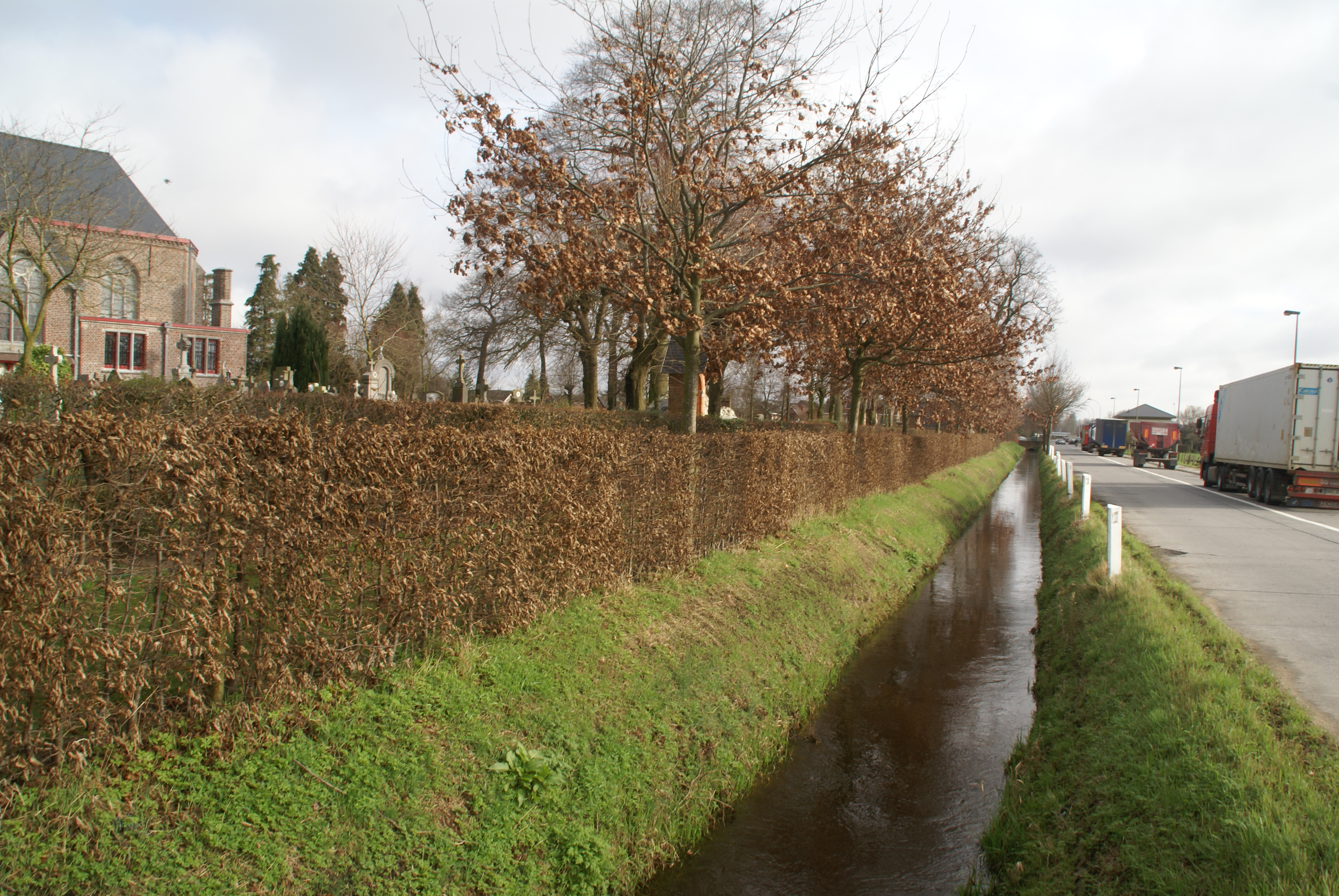 Brugge (Assebroek), Belgium: The river Meersbeek and the cemetery